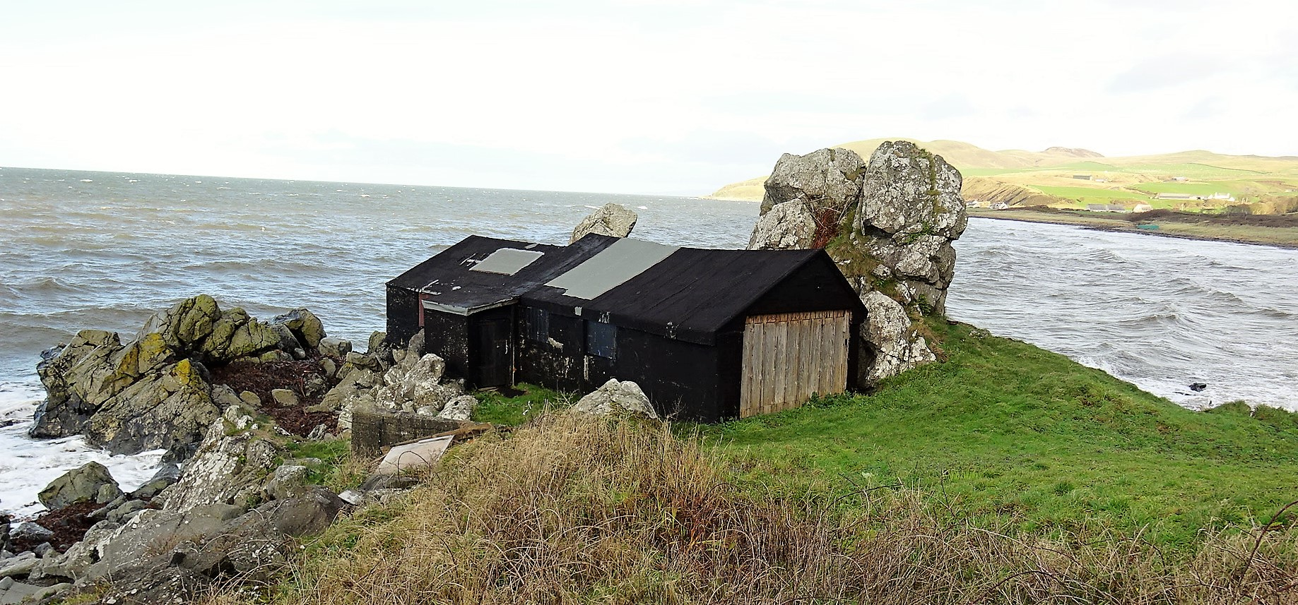 Fishermen's huts & outcrop, Carleton Port, Lendalfoot, South Ayrshire, Scotland.